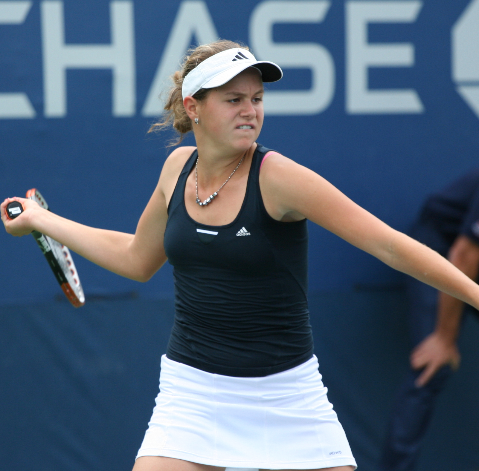 U.S. Open Juniors Wednesday, Sept. 9, 2009